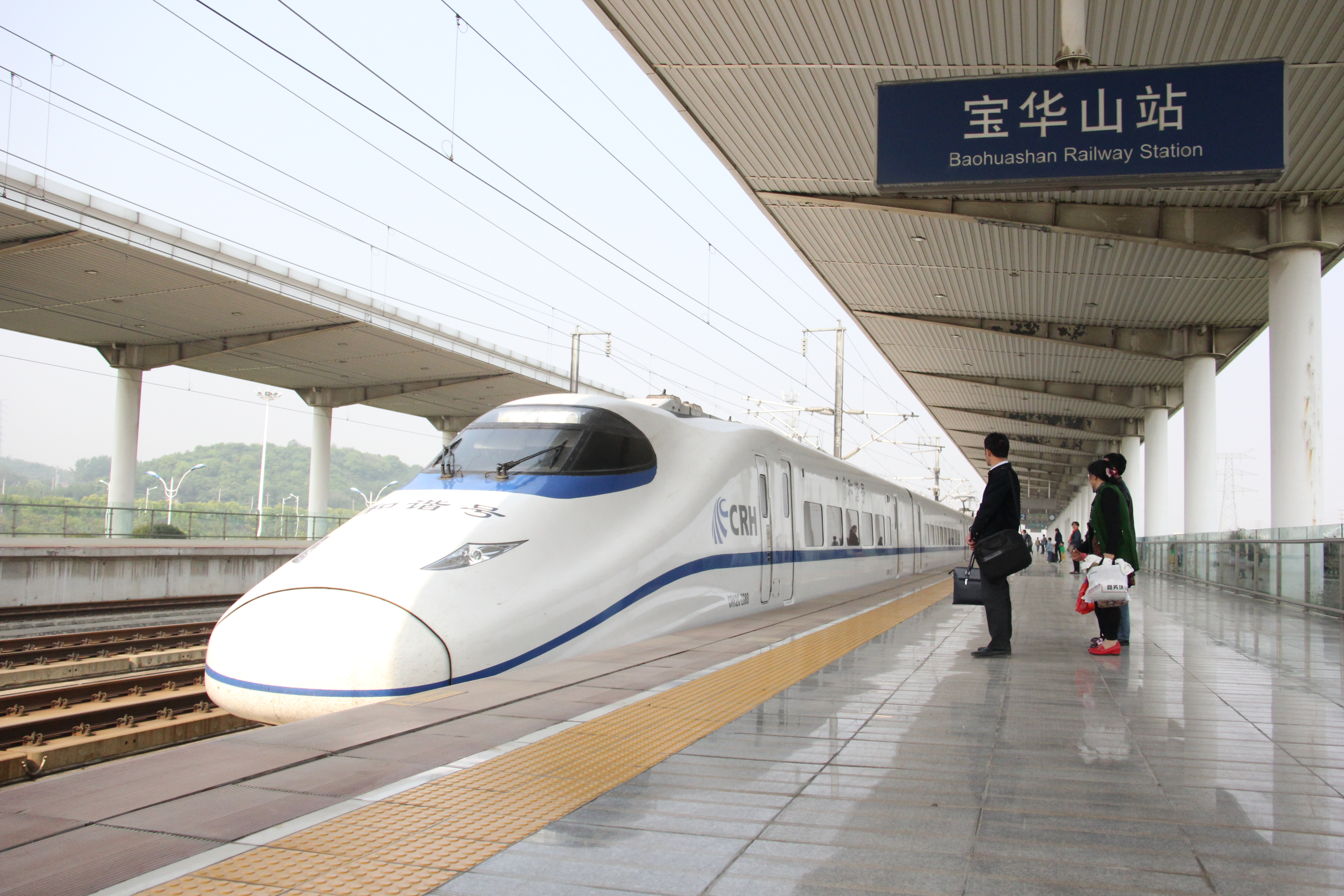 201604 G7125 enters into Baohuashan Station